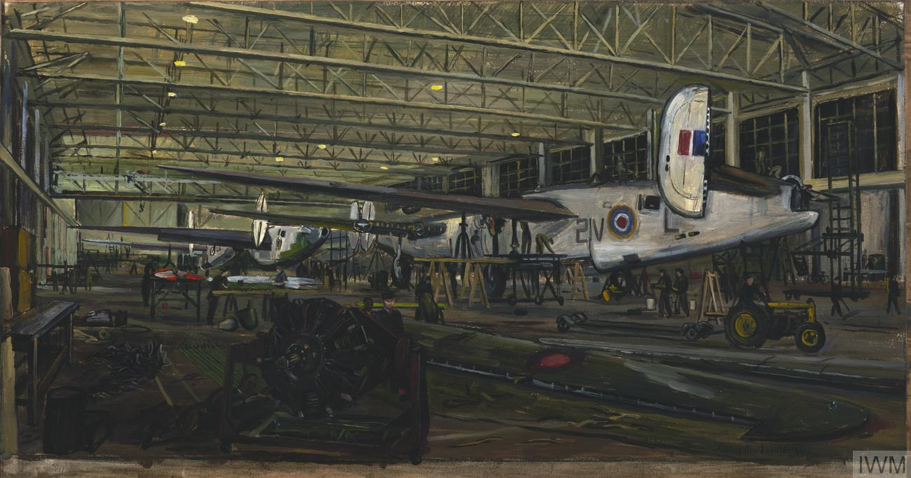 Two Liberator aircraft in a hangar workshop, surrounded by scaffolding, wing and engine parts. Several uniformed workers are in attendence.